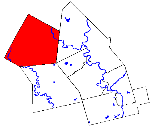 Wellesley